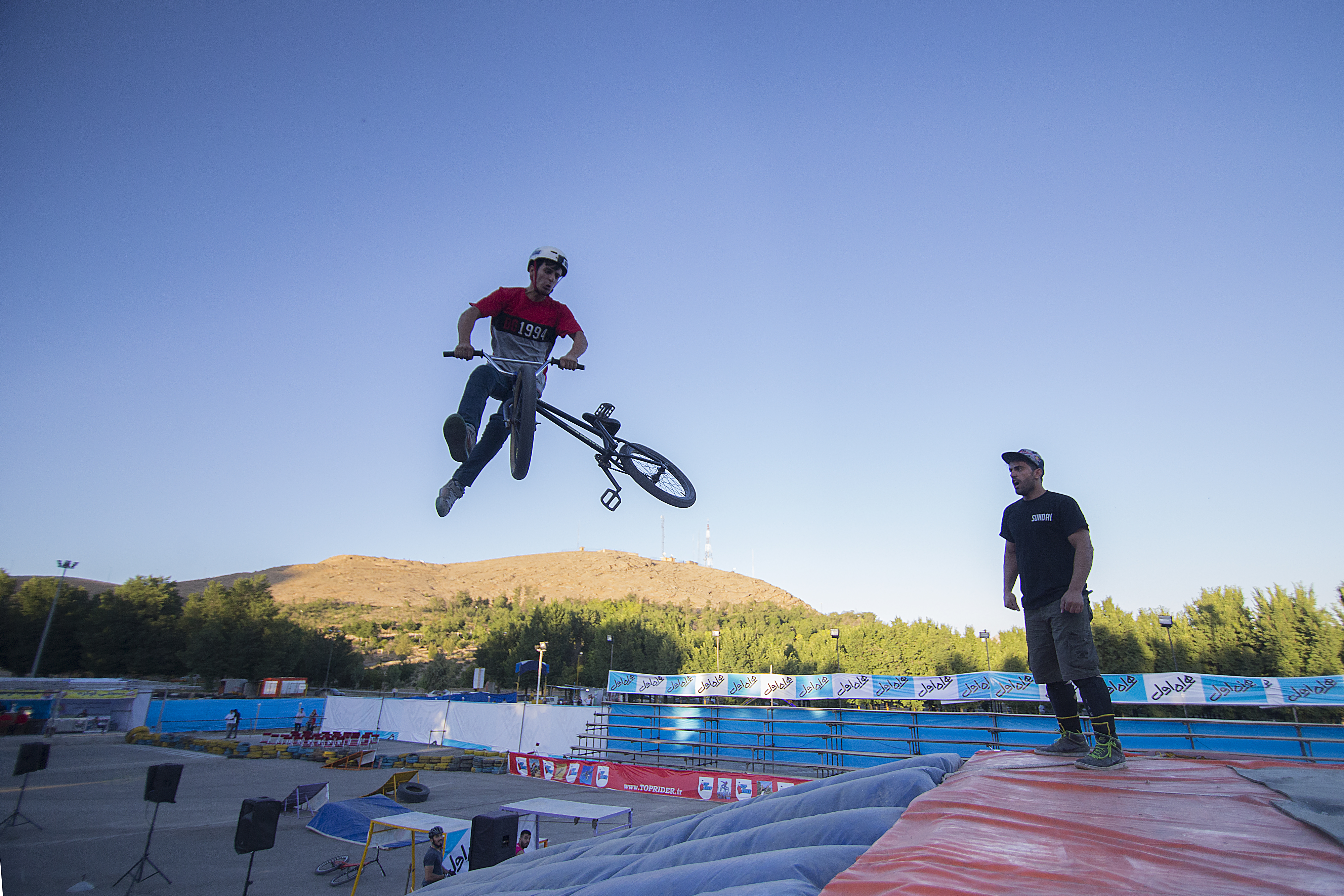 BMX, an abbreviation for bicycle motocross or bike motocross, is a cycle sport performed on BMX bikes, either in competitive BMX racing or freestyle BMX, or else in general on- or off-road recreation. photography place: Iran, Shahr-e Kord BMX rider: Mohsen Alizadeh Photographer: Mostafa Meraji